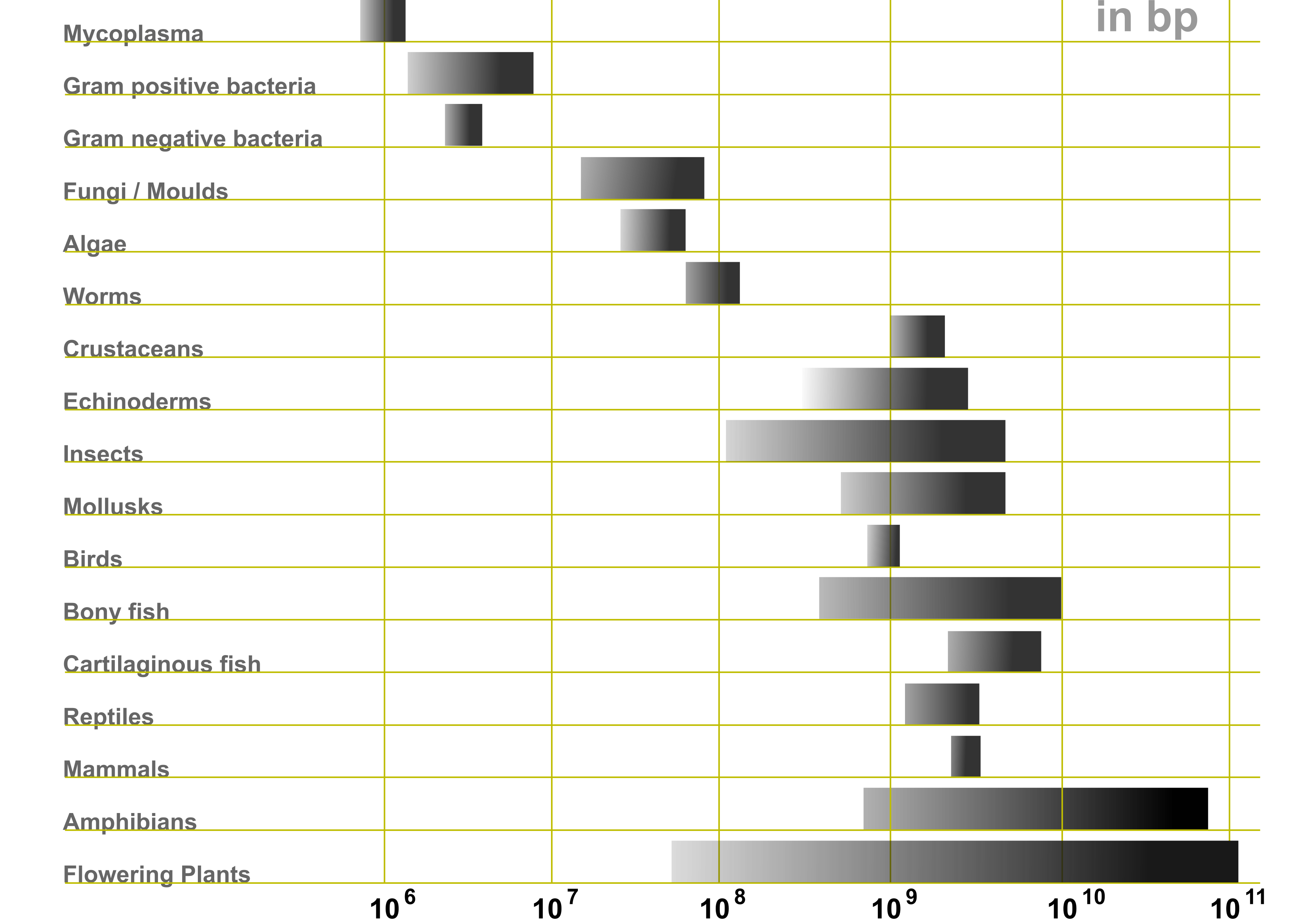 Graph of variation in estimated genome sizes in base pairs